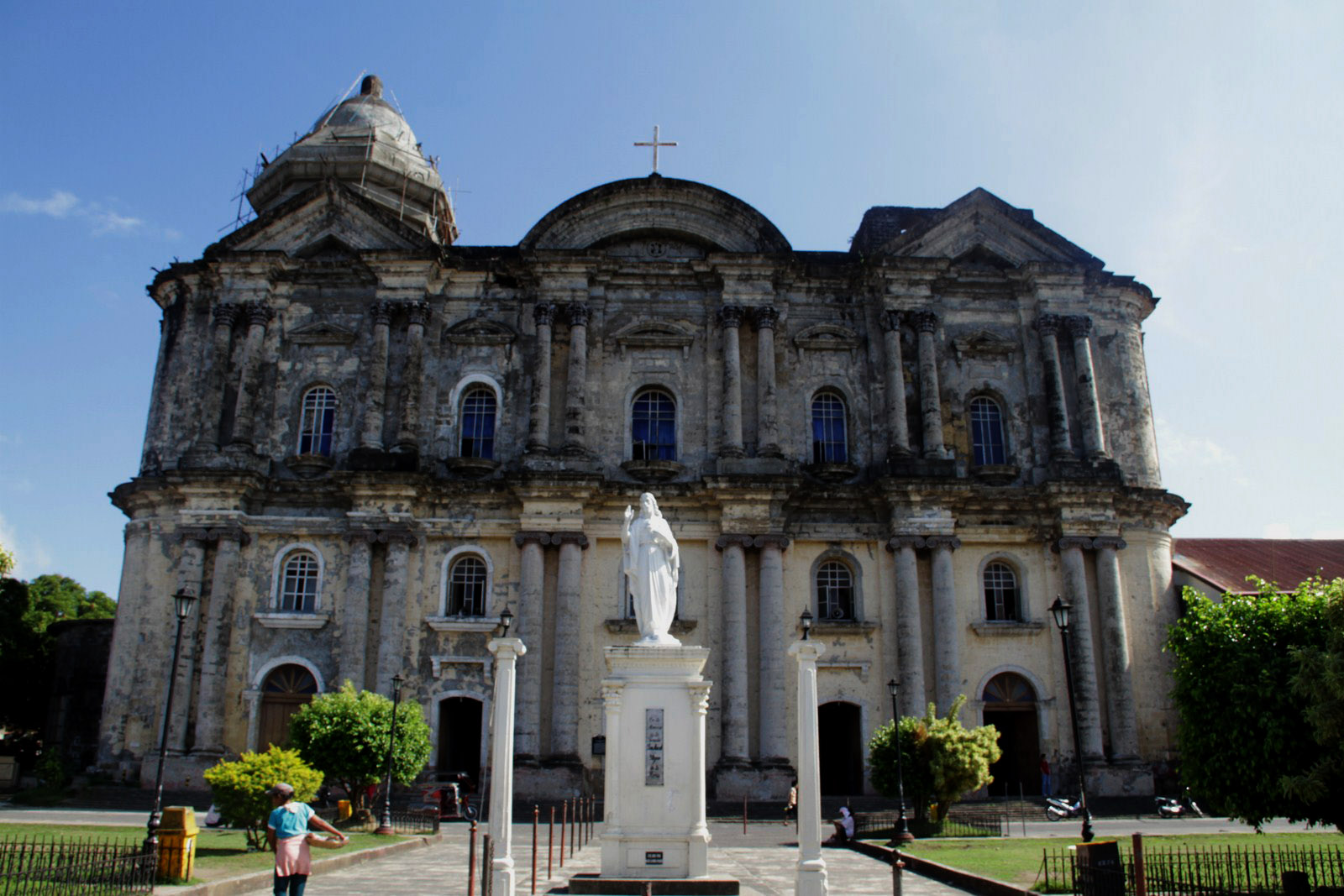 Basilica de San Martin de Tours - largest Catholic Church in Asia.